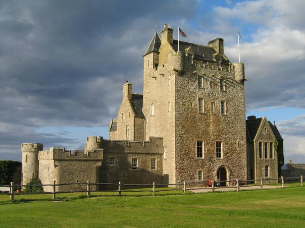 Ackergill Castle, circa 2003. This is a picture taken by me at my wedding at Ackergill Castle in 2003. LeeNapier 19:13, 10 April 2007 (UTC)